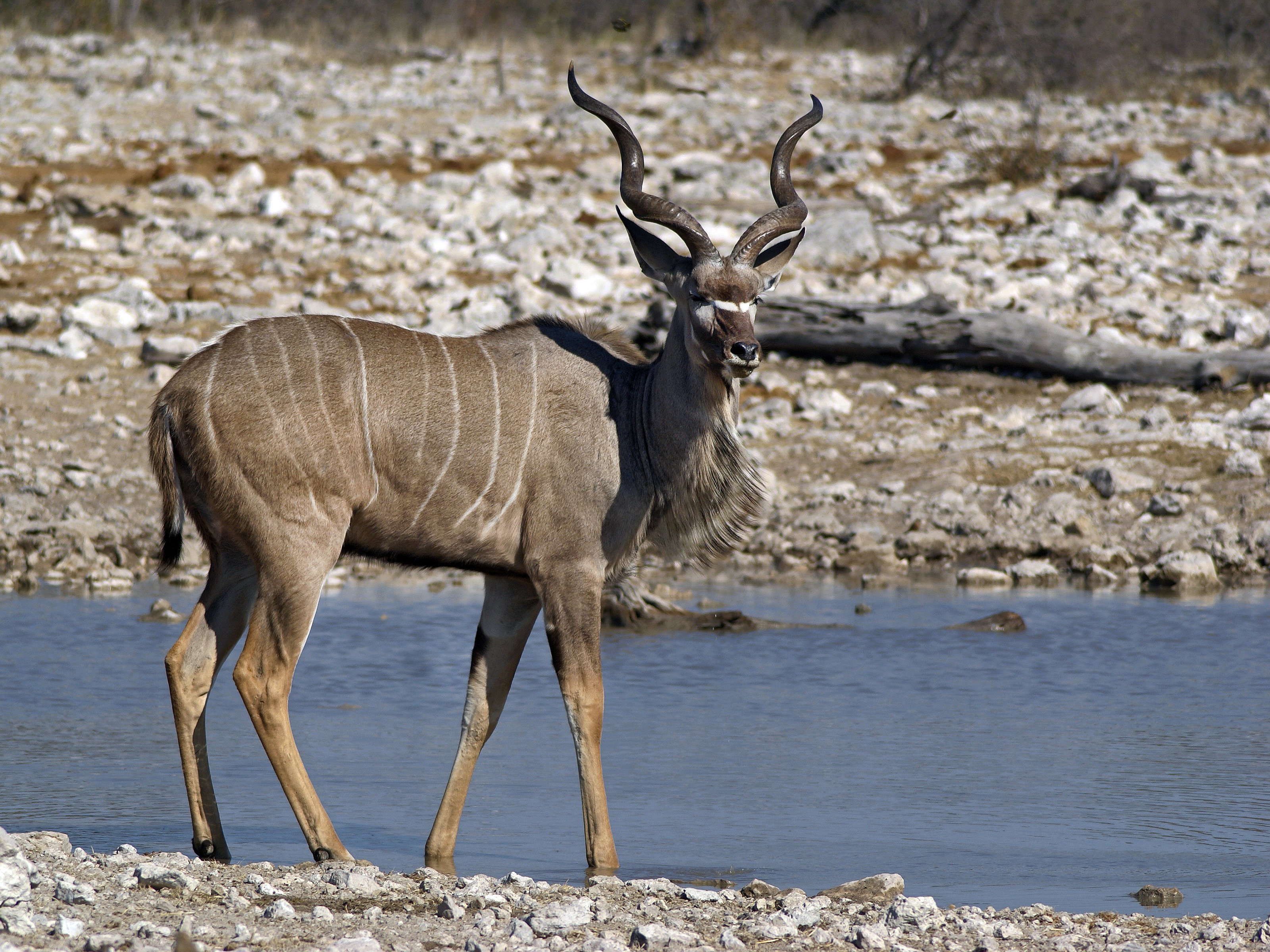 A Greater Kudu bull at Kalkheuwel waterhole, eastern Etosha, Namibia